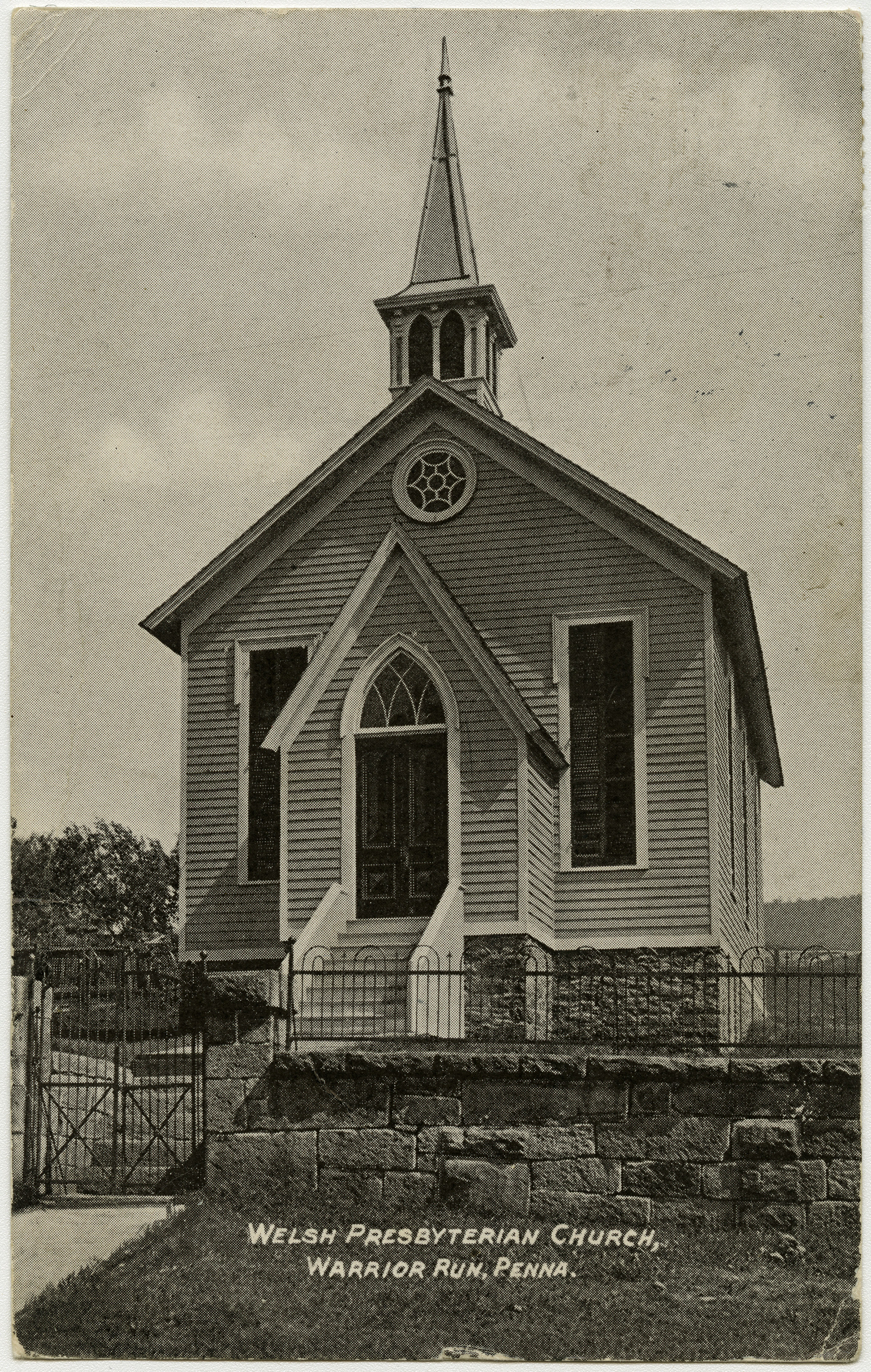 Welsh Presbyterian Church in Warrior Run, Pennsylvania from a pre-1923 postcard From RG 428, Postcard Collection, Presbyterian Historical Society, Philadelphia, Pennsylvania.